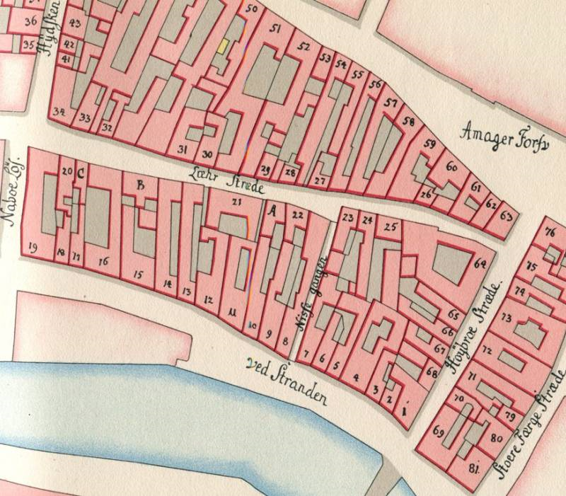 Detail from Gedde's district map of Copenhagen showing the street Læderstræde